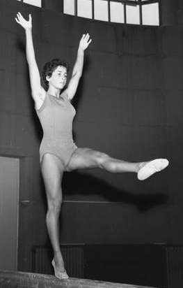 Rosella Cicognani at the Rome Olympics